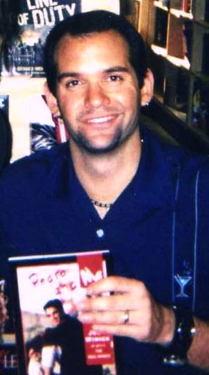 Comic book creator Judd Winick at Midtown Comics East in Manhattan, June 24, 2004. This photo was created by Luigi Novi. It is not in the public domain, and use of this file outside of the licensing terms is a copyright violation.